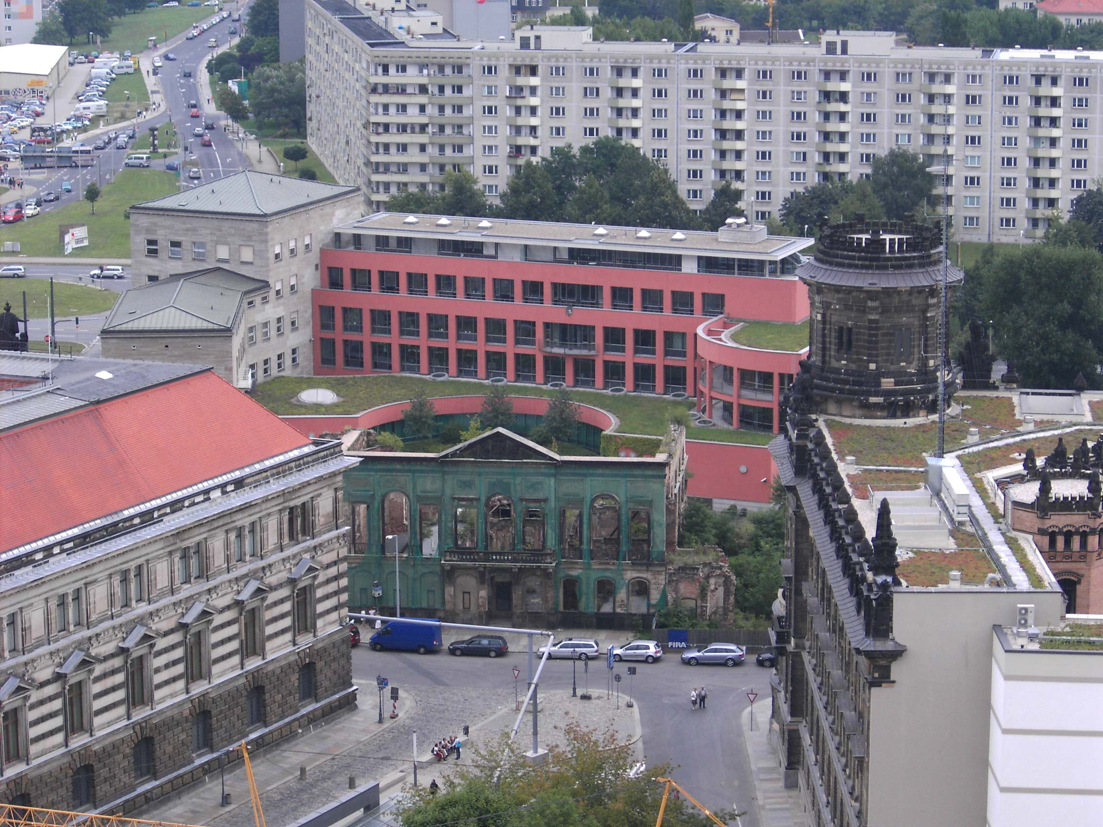 Dresden: View from Frauenkirche. Interesting combination of old ruined palace and modern architecture.